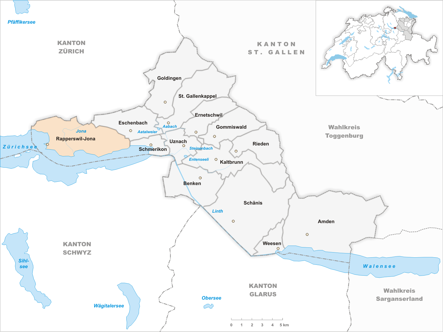 Municipality Rapperswil-Jona